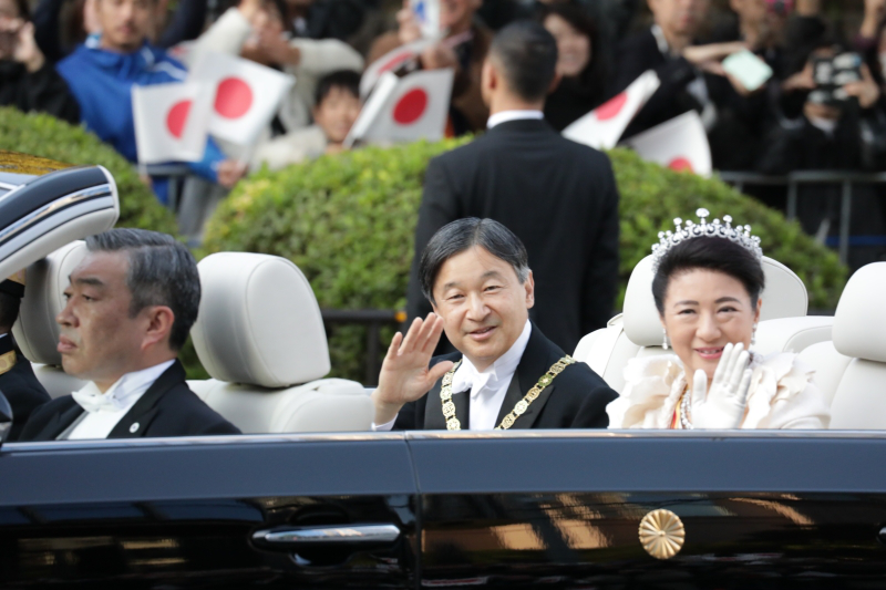 Imperial Procession by motorcar after the Ceremony of the Enthronement